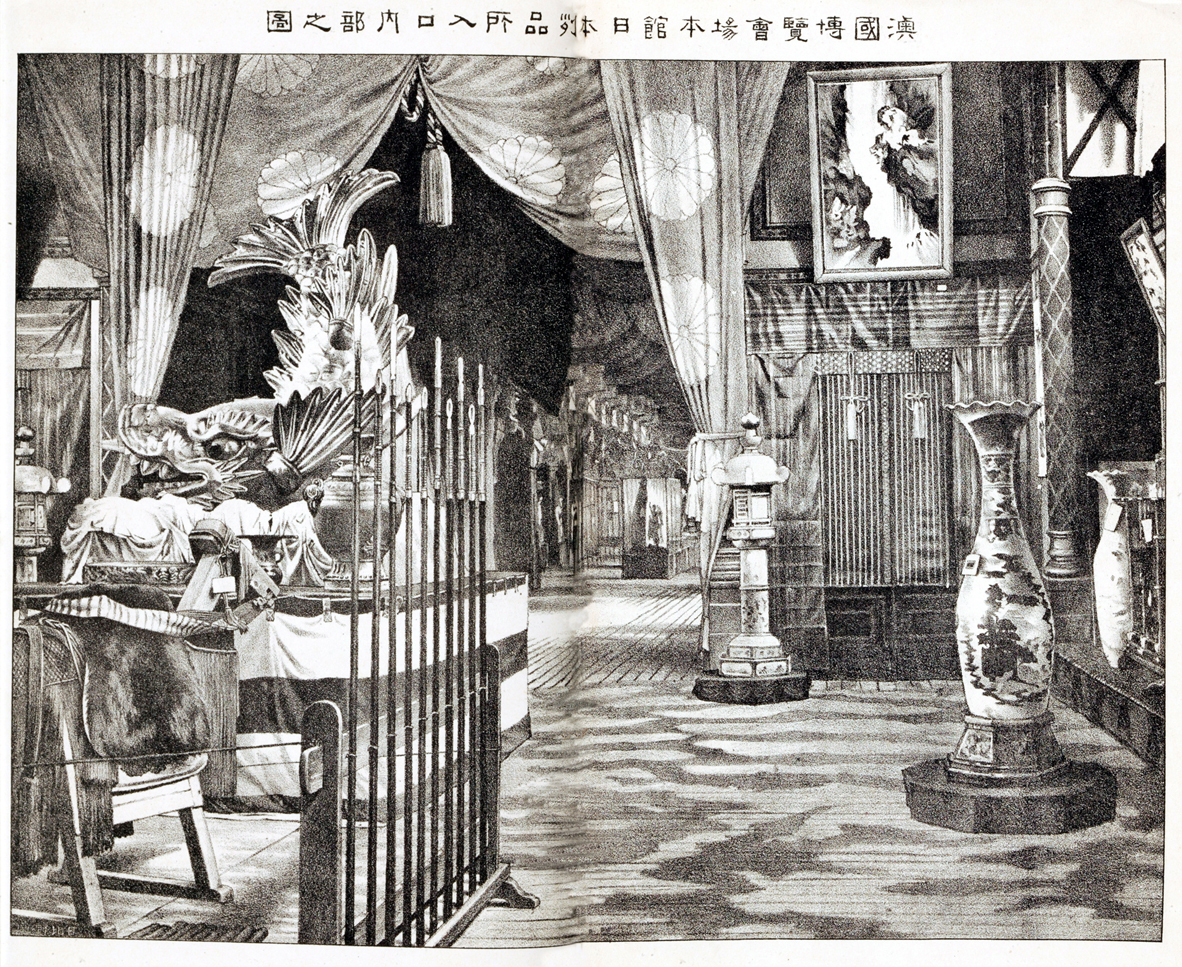 illustration of the entrance of Japanese pavilion in expo 1873